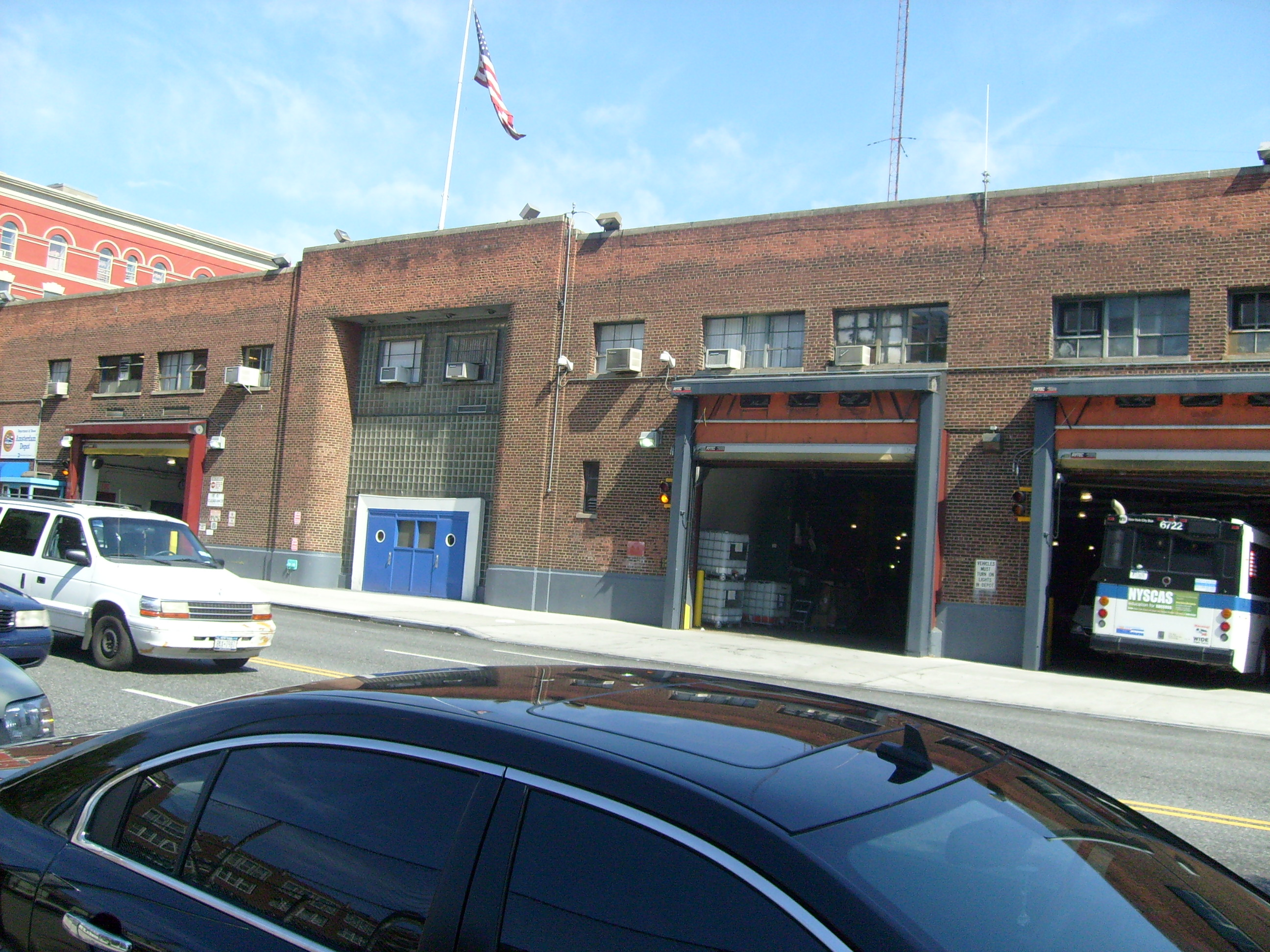 Amsterdam Depo at 129th Street and Amsterdam Avenue, Manhattan